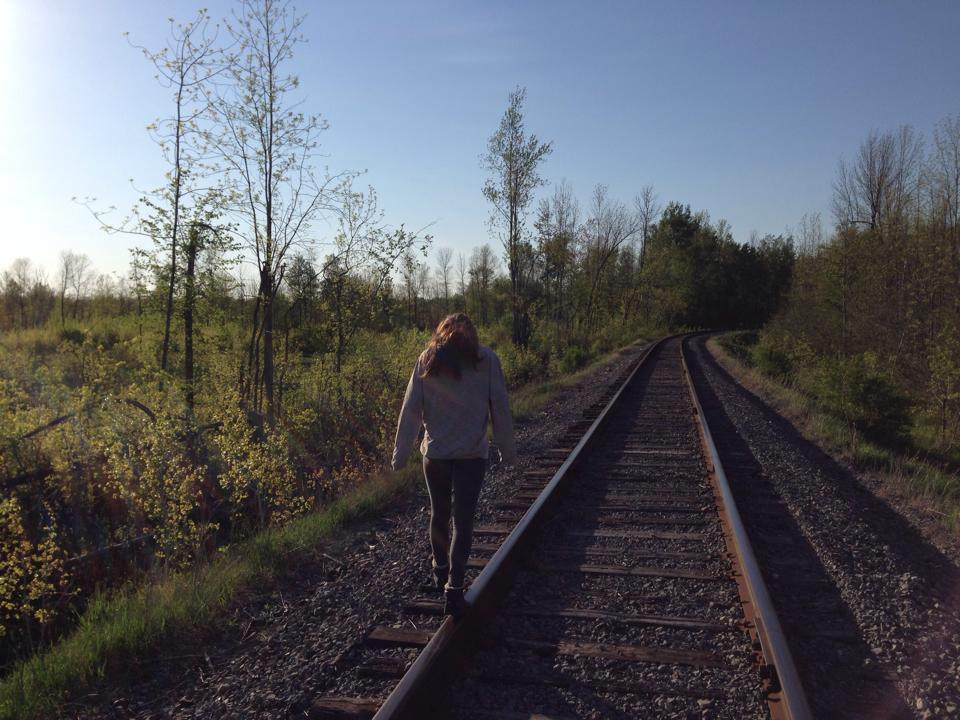 The approximate location of the site of the former town of Prescott Junction. The tracks in the picture are currently not in use. The picture was taken in Spring of 2015 on a hike to search for evidence of the old town.